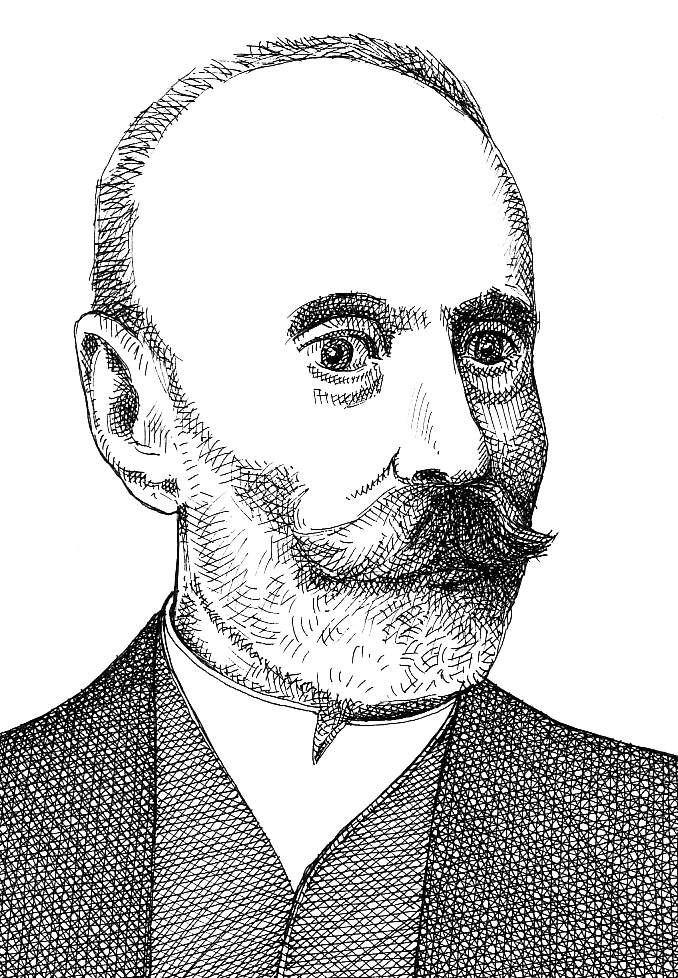 Gusztáv Lauka writer and poet